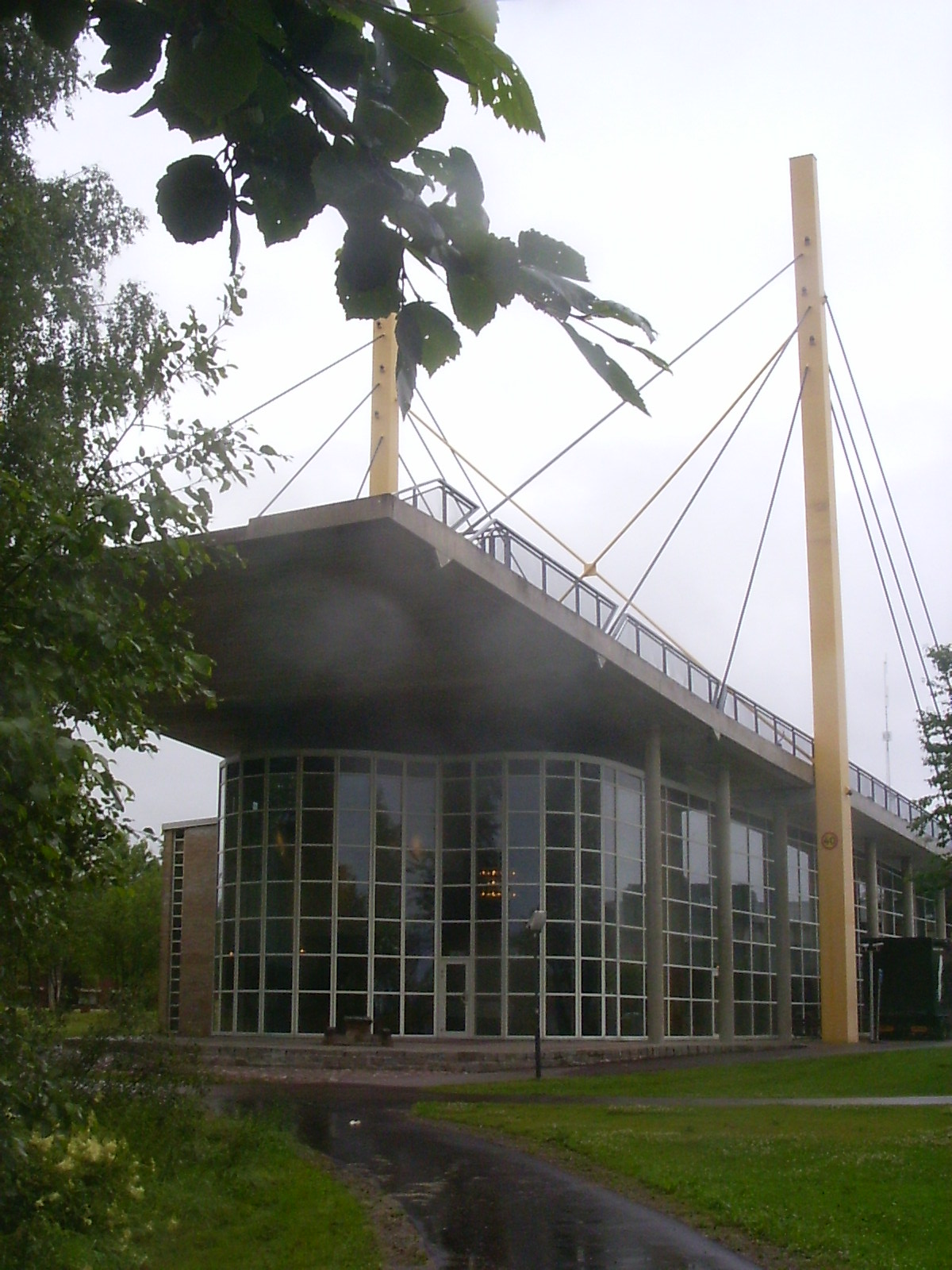 Pylonen, museum of the Swedish road authority Vägverket in Borlänge